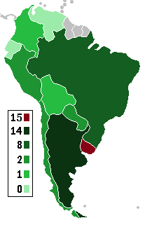 Copa America Championships